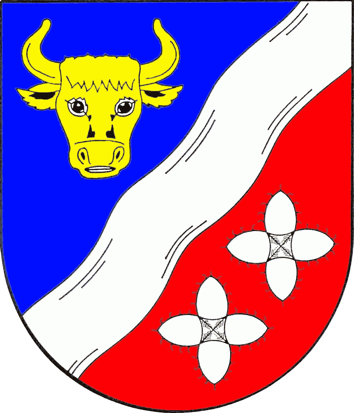 Coat of arms of the municipality Ausacker in Schleswig-Holstein, Germany.